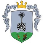 Coat of arms of Felsőnána, Hungary